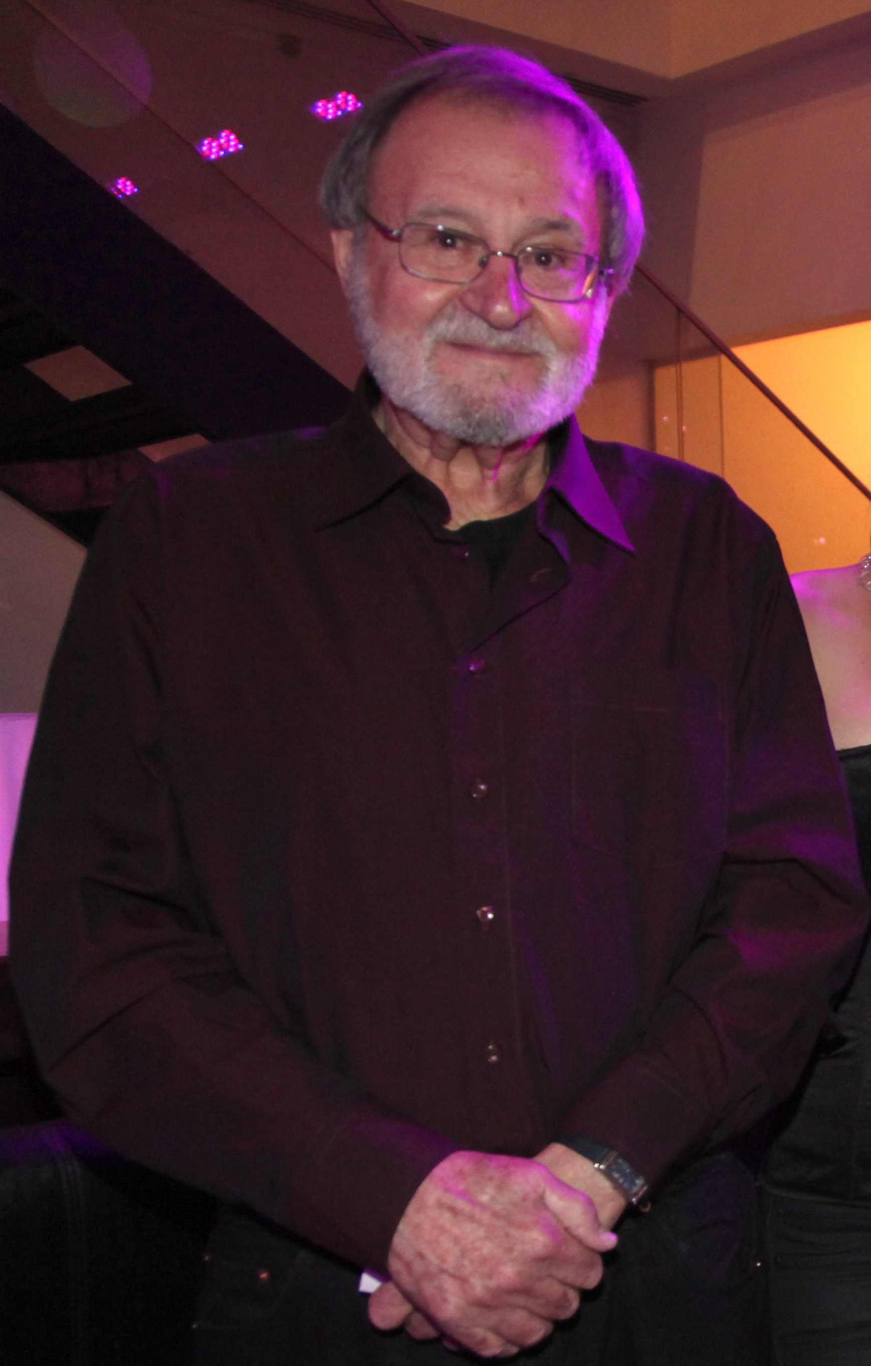 Amnon Alexandroni